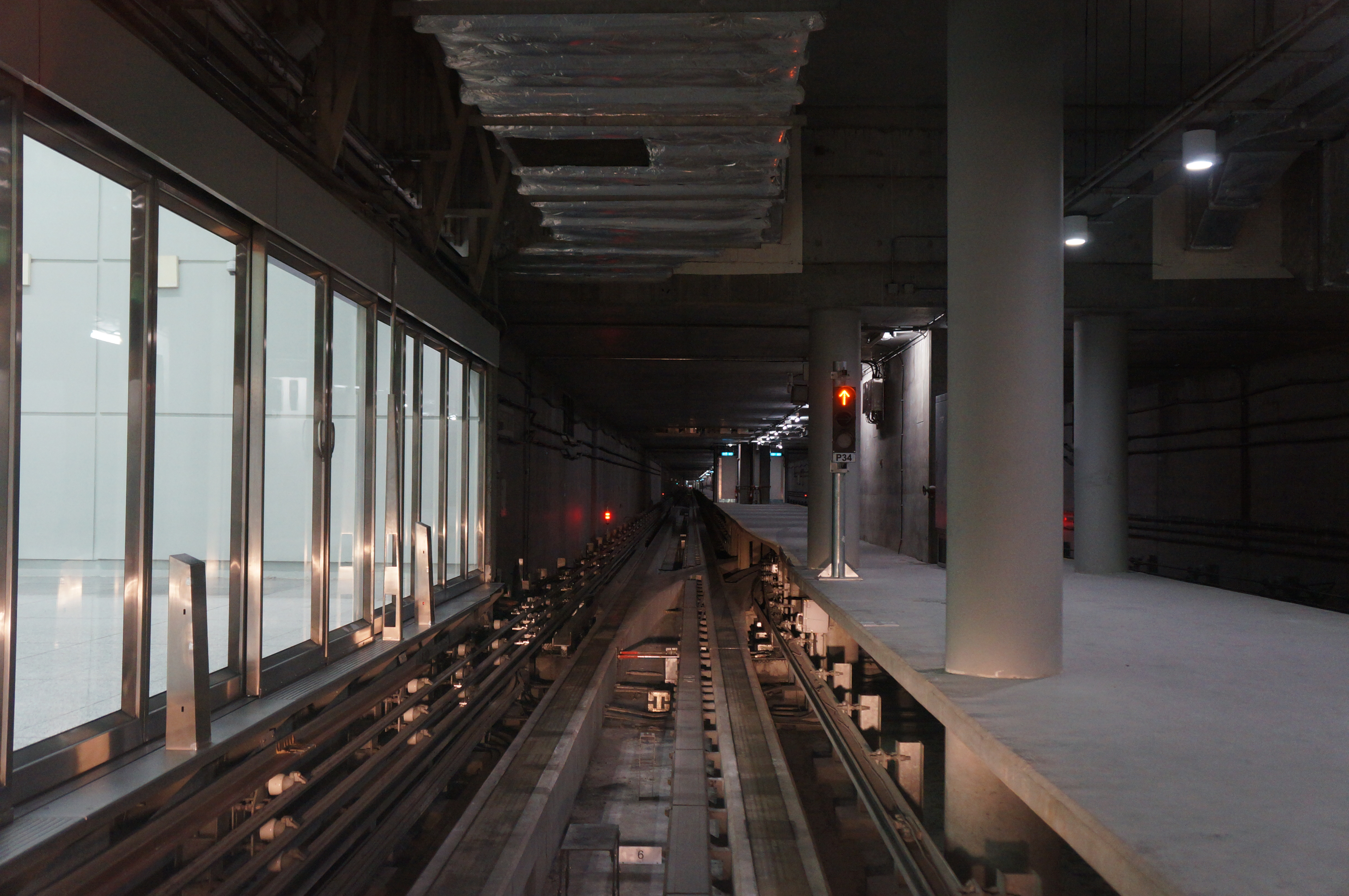 201610 Tracks of HKG-APM Brown Line for Midfield Concourse Station, taken at West Hall Station